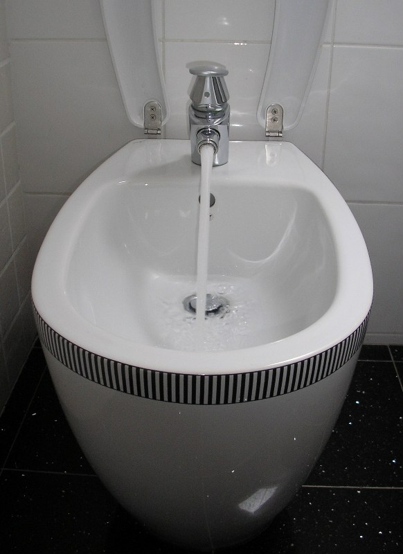 Bidet